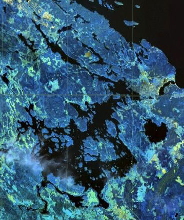 Lake Vuoksa/Uusijärvi, Karelian Isthmus